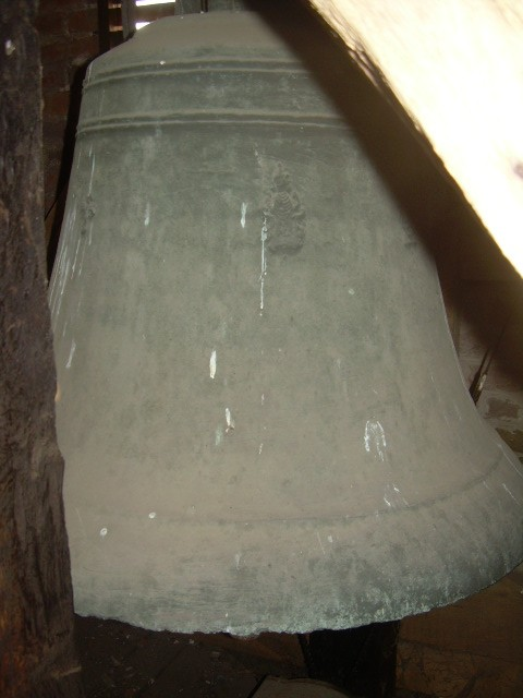 Medieval Bell in the St. George Chapel Gr. Liedern